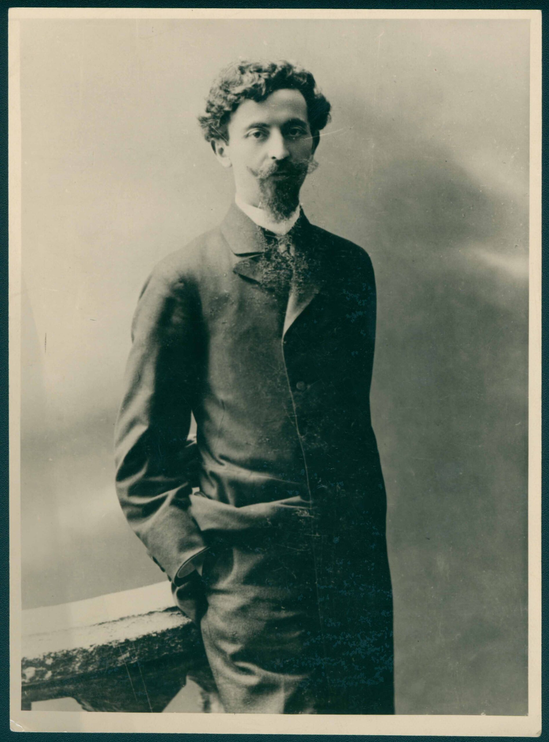 IMARO revolutionary/ies